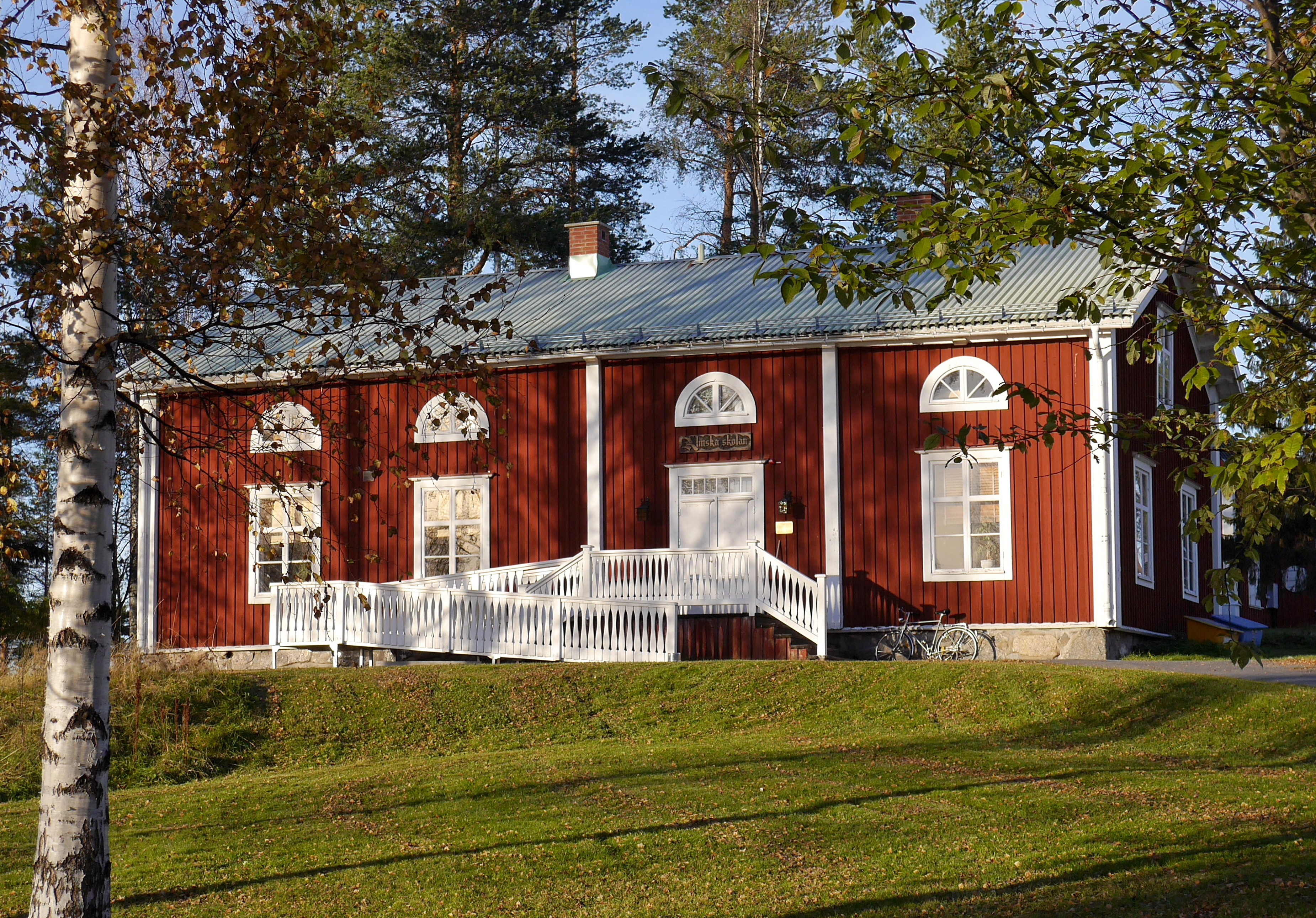 Bodens first school from 1848. The name is associated with one of the first teachers in Boden - Nils Oskar Alm (1850-1923) - who, during his lifetime, had a major influence on the school life in Boden. The schools upper floor served as the teachers living quarters. Classes were held on the ground floor. Nowadays the restored building is being used for conferences and exhibitions but parts of the original wall painting were spared during restoration.